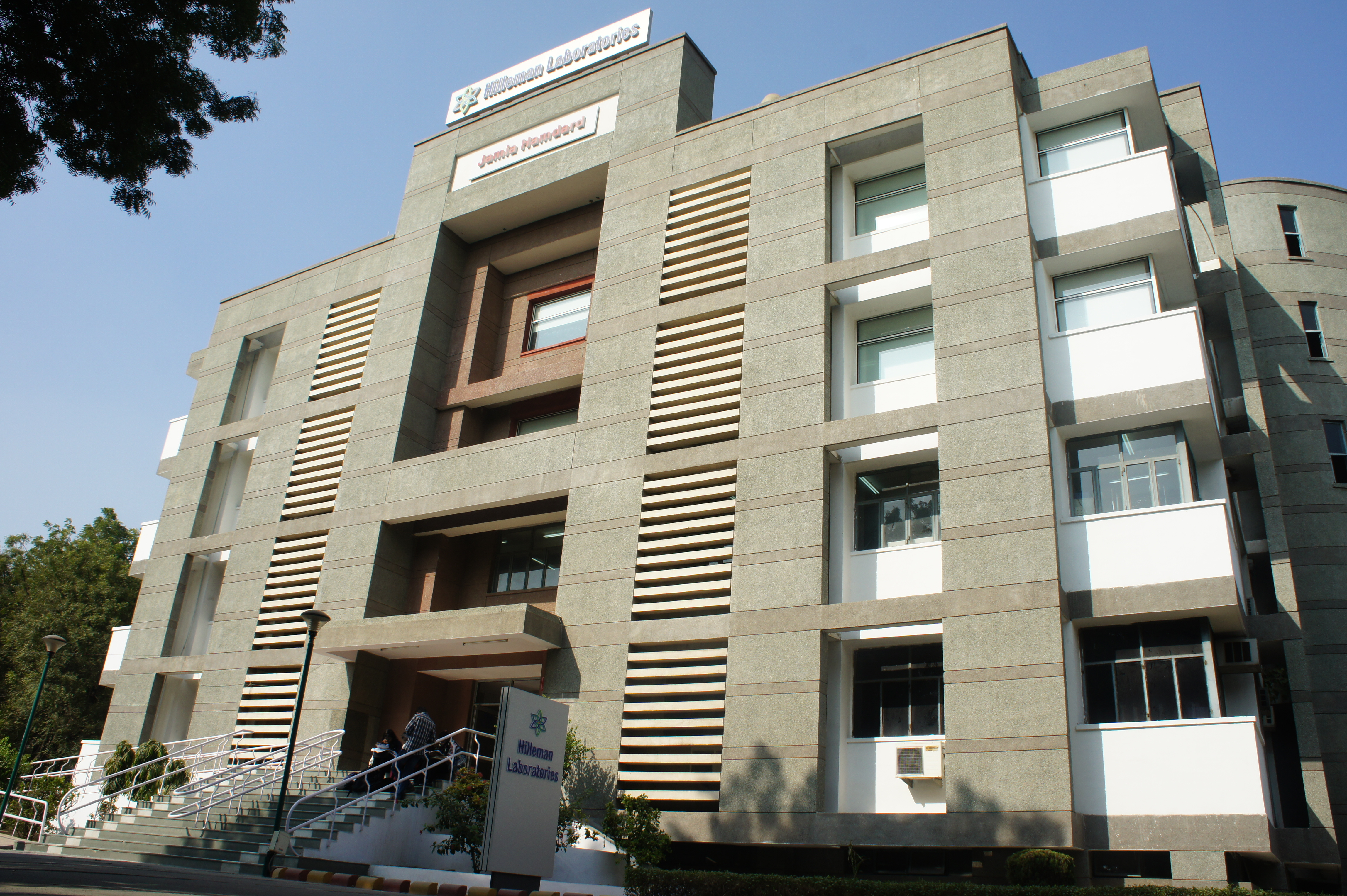 this is the building of Hilleman Laboratories headquarters.